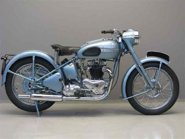 Triumph 6T Thunderbird 650 cc motorcycle from 1950